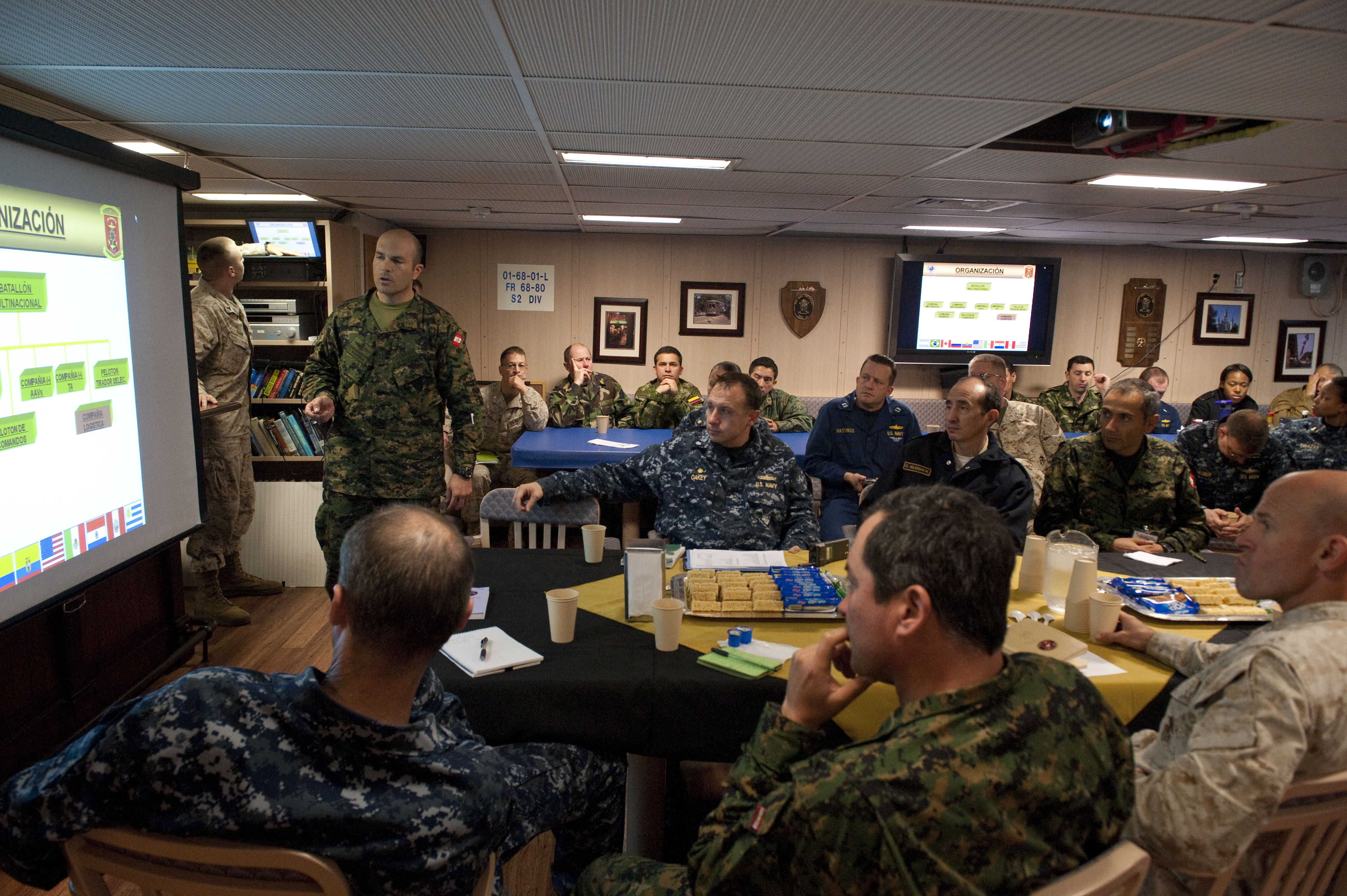 PACIFIC OCEAN (July 17, 2010) A Peruvian marine lectures at a confirmation brief in the wardroom of the amphibious transport dock ship USS New Orleans (LPD 18) about upcoming multinational joint exercises off the coast of Peru during Southern Partnership Station 2010. New Orleans is participating in Southern Partnership Station, an annual deployment of U.S. military training teams to the U.S. Southern Command area of responsibility. (U.S. Navy photo by Mass Communication Specialist 1st Class Brien Aho/Released)